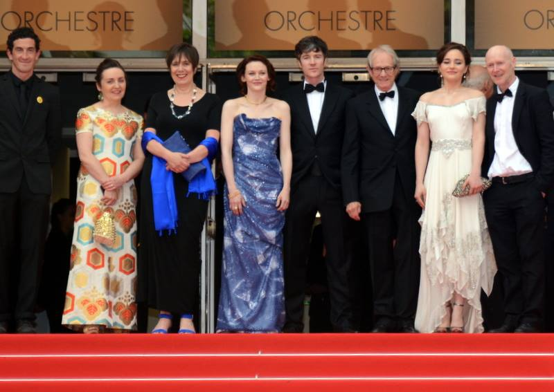 Cast and director of "Jimmy's Hall" at the Cannes film festival